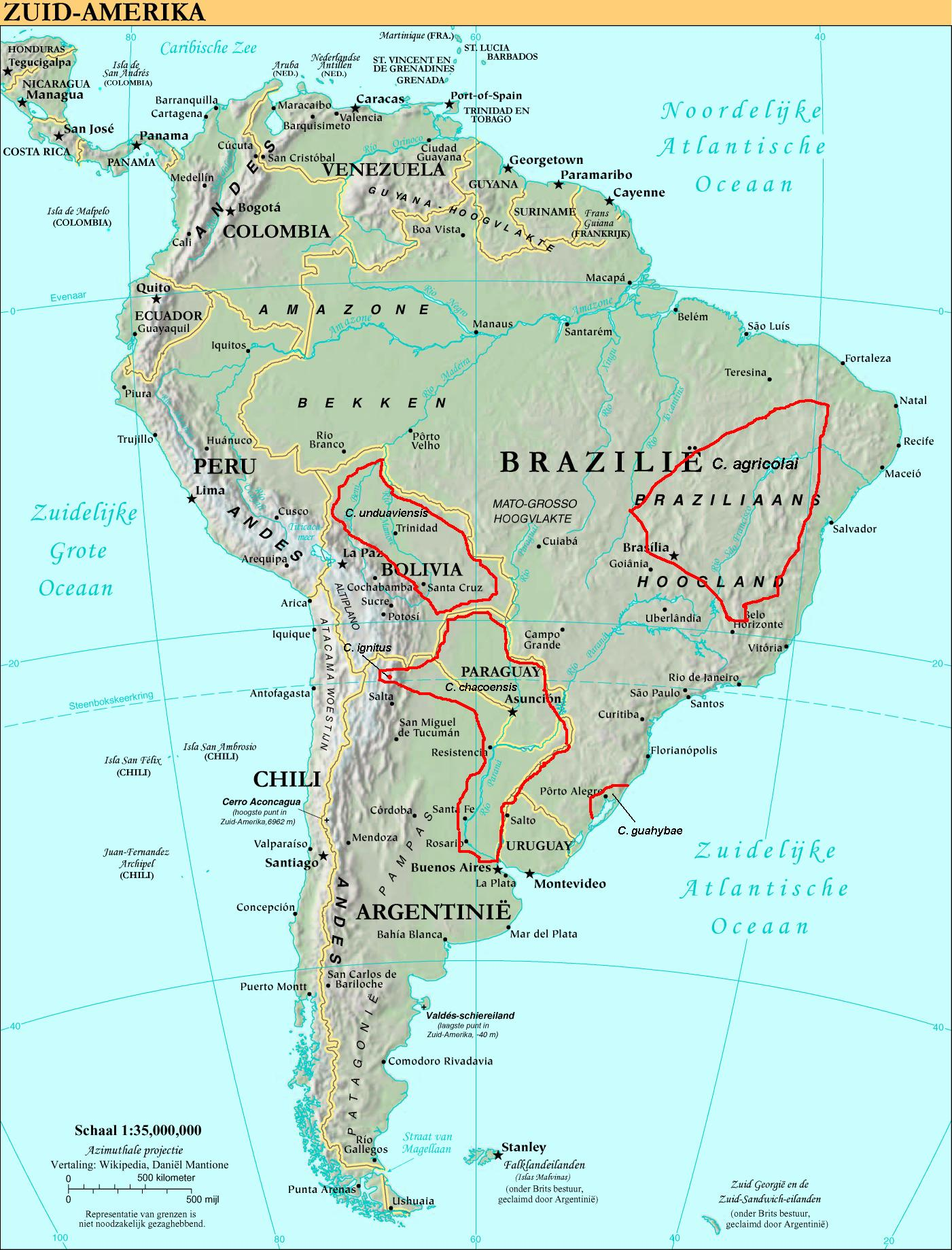 Distribution map of the didelphimorph genus Cryptonanus (Cryptonanus and Cryptonanus), based on Afbeelding:Kaart_Zuid_Amerika.jpg, a Dutch translation of the CIA Factbook map, with distributions added by User:Ucucha.